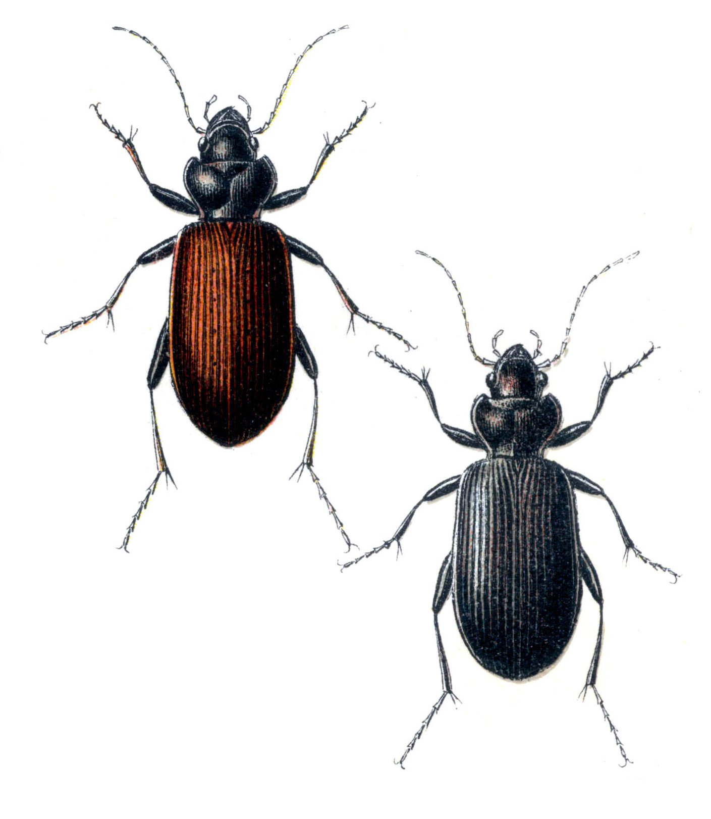 Nebria rufescens rufescens (Ström, 1768) f. rufescens, adult, dorsal view (left) and Nebria rufescens rufescens (Ström, 1768) f. gyllenhali, adult, dorsal view (right)